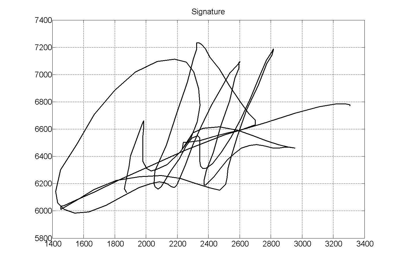 online signature produced with intuous wacom + MATLAB